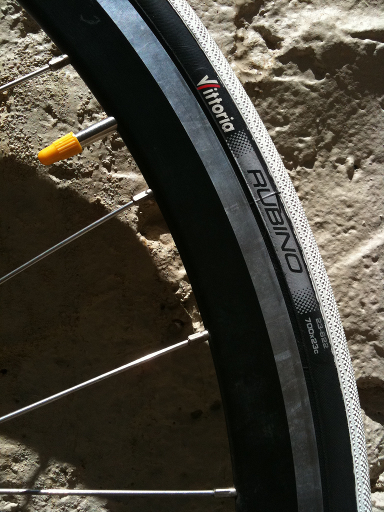 23-622 white